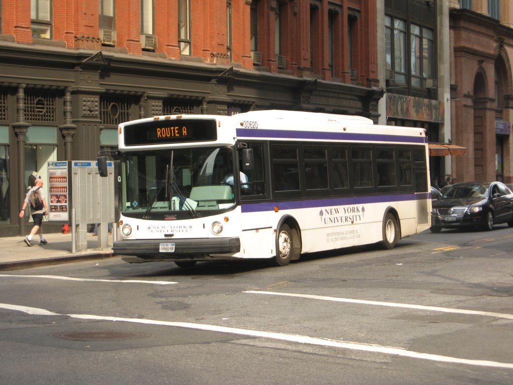 NYU shuttle #30620 (owned by Coach USA) operates on Shuttle Route A.